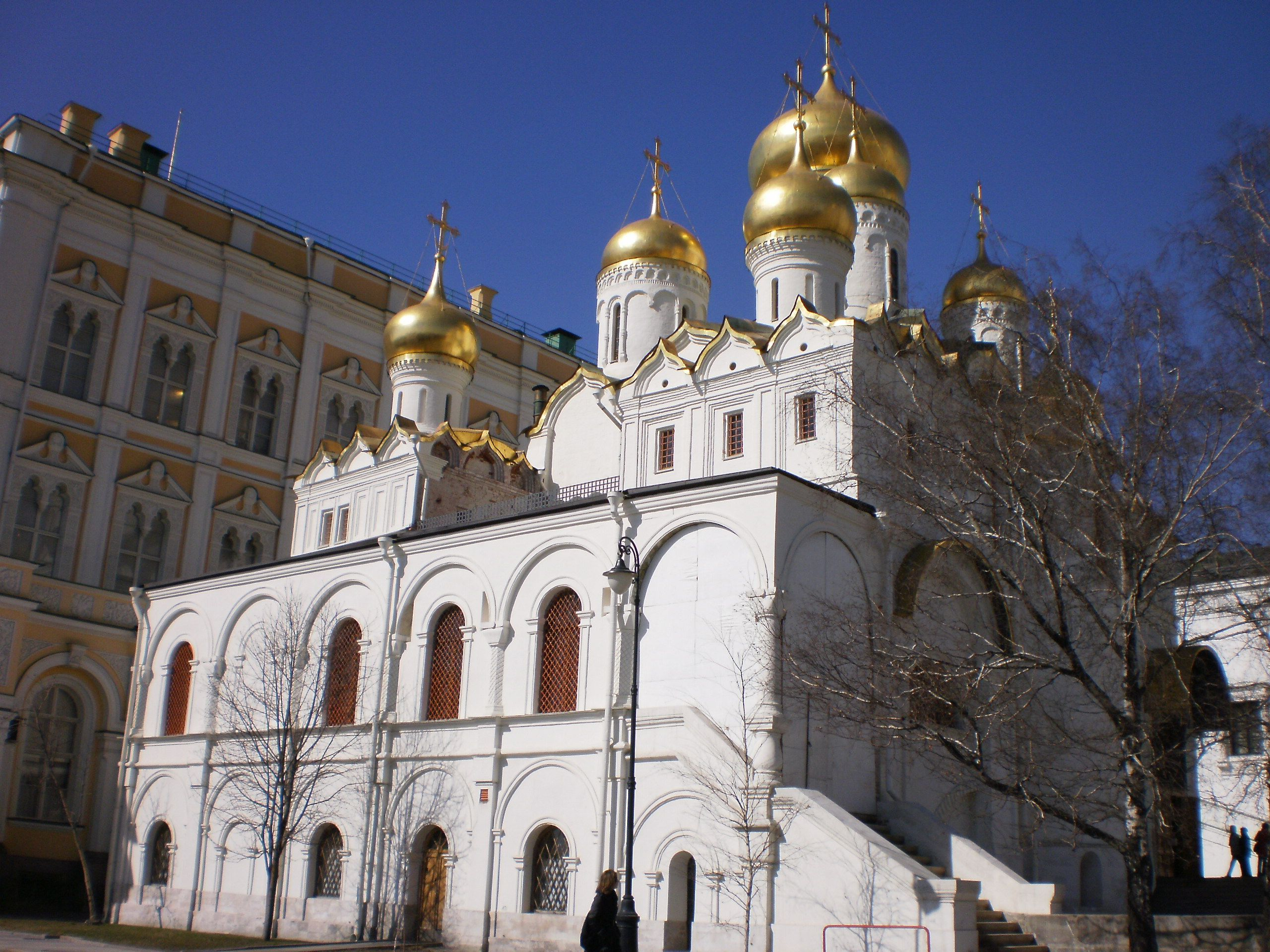 The Cathedral of the Annunciation in the Moscow Kremlin